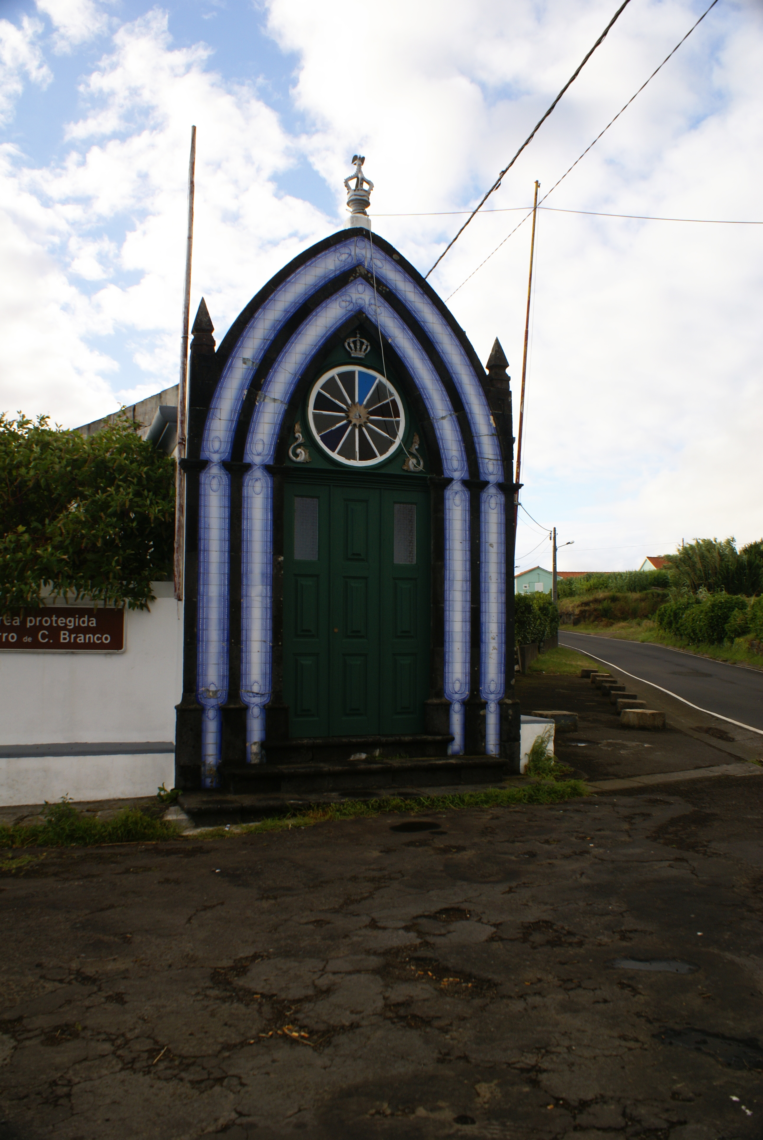 The Império do Espírito Santo of Lombega, Castelo Branco, Horta, Faial (Azores), Portugal